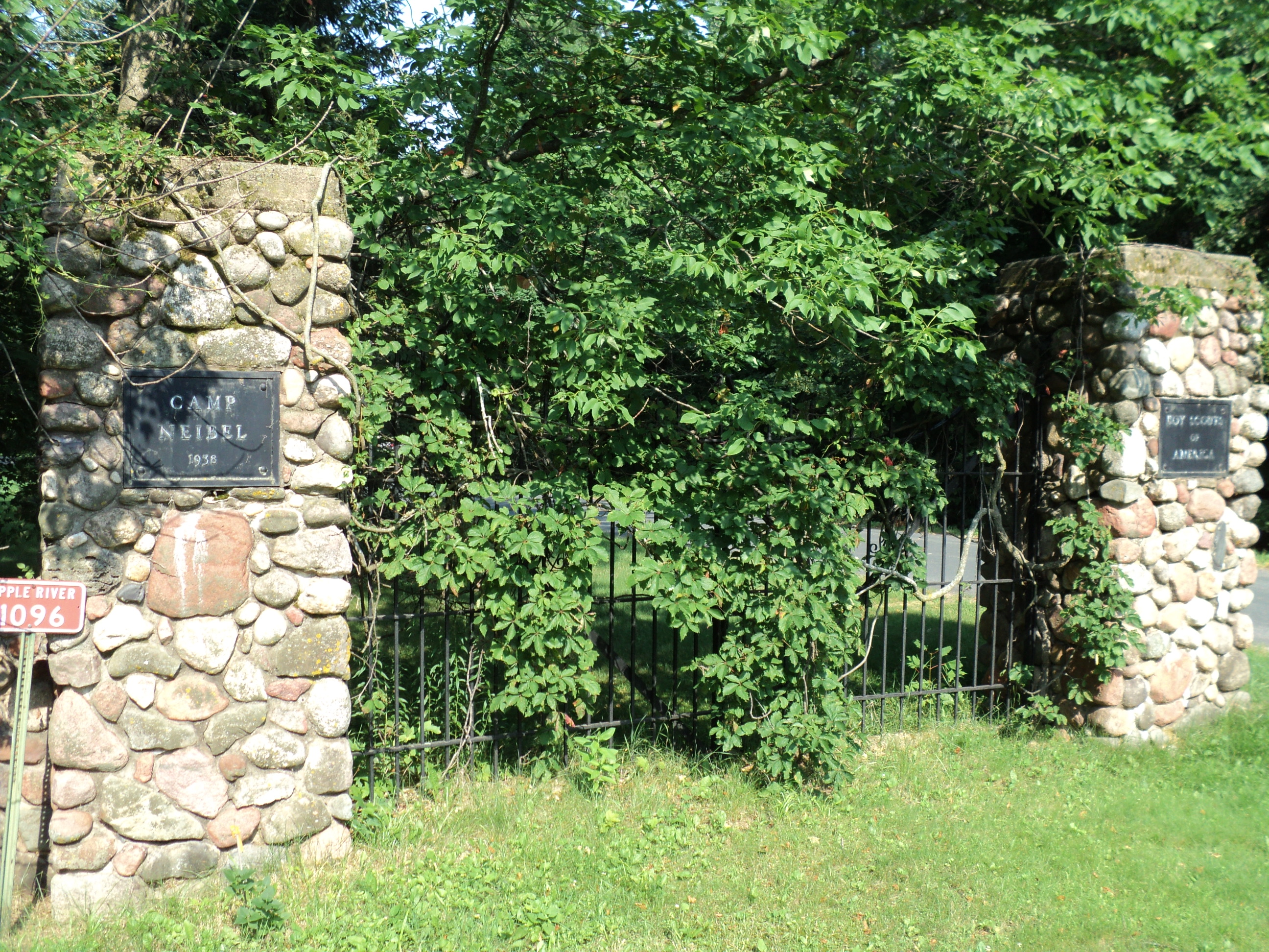 The old gates to former BSA Camp Neibel on Balsam Lake, Wisconsin